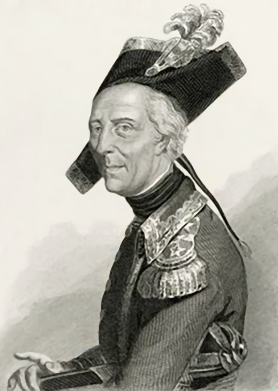 General Luc Siméon Auguste Dagobert de Fontenille (1739-1794)